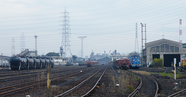 Nagoya rinkai railway's Toko Station.